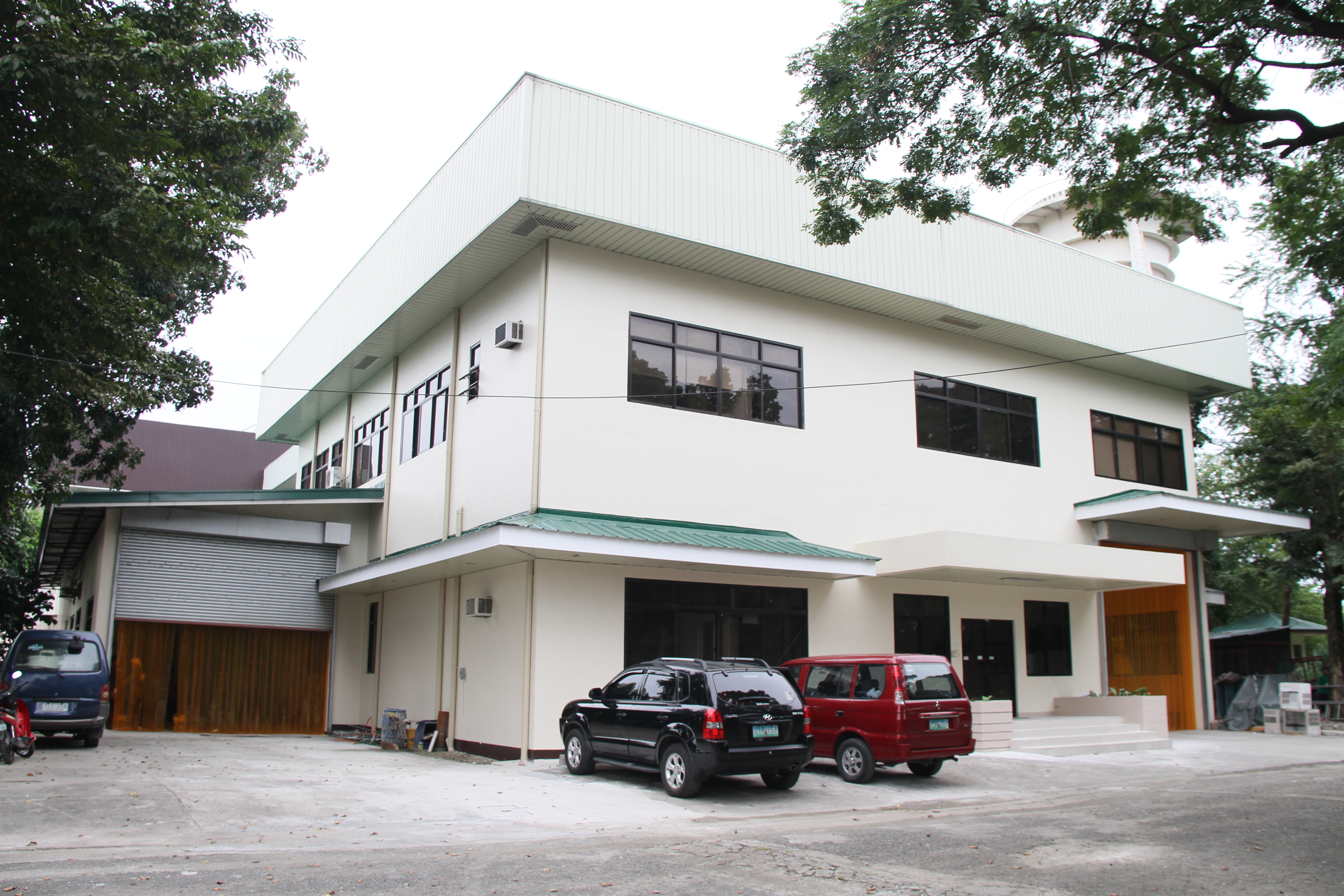 The Cobalt-60 Multipurpose Irradiation Facility found in the PNRI grounds